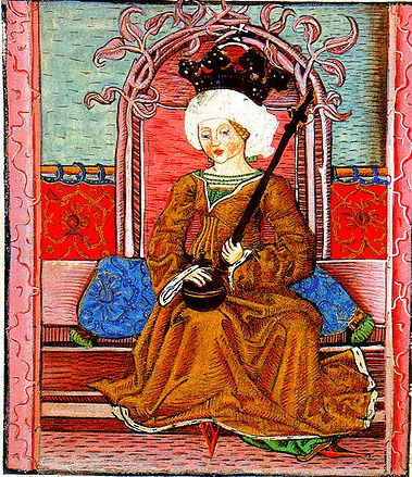 Mary, Queen of Hungary